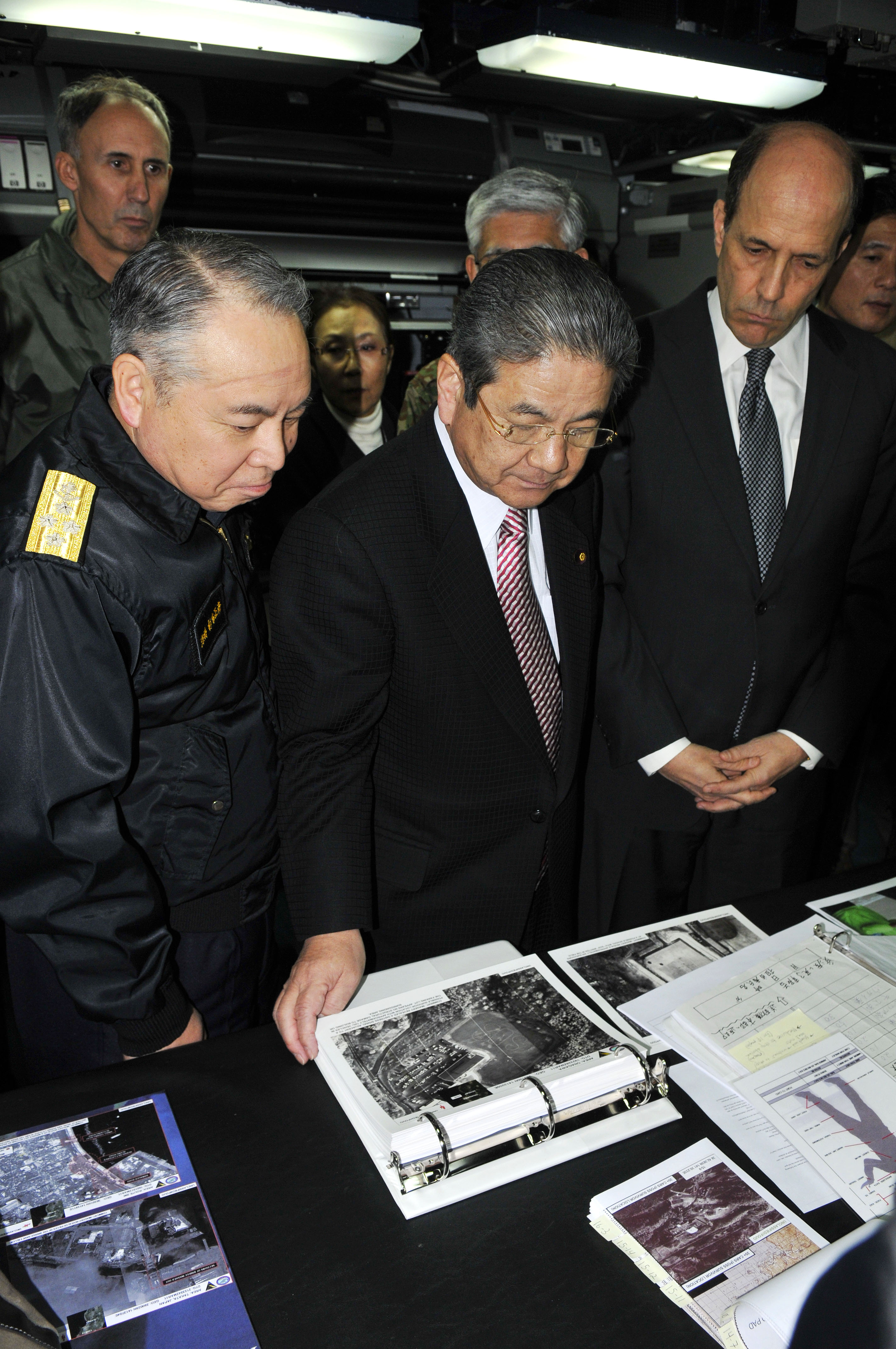 PACIFIC OCEAN (April 4, 2011) Adm. Masahiko Sugimoto, left, chief of staff for the Japan Maritime Self-Defense Force, Japan Defense Minister Toshimi Kitazawa, and United States Ambassador John Roos look at photographs and intelligence gathered during Operation Tomodachi aboard the aircraft carrier USS Ronald Reagan (CVN 76). During the visit Japanese and American officials thanked Ronald Reagan Sailors for relief efforts during Operation Tomodachi. Ronald Reagan is off the coast of Japan to provide disaster relief and humanitarian assistance to Japan as directed in support of Operation Tomodachi. (U.S. Navy photo by Mass Communication Specialist 3rd Class Shawn J. Stewart/Released)